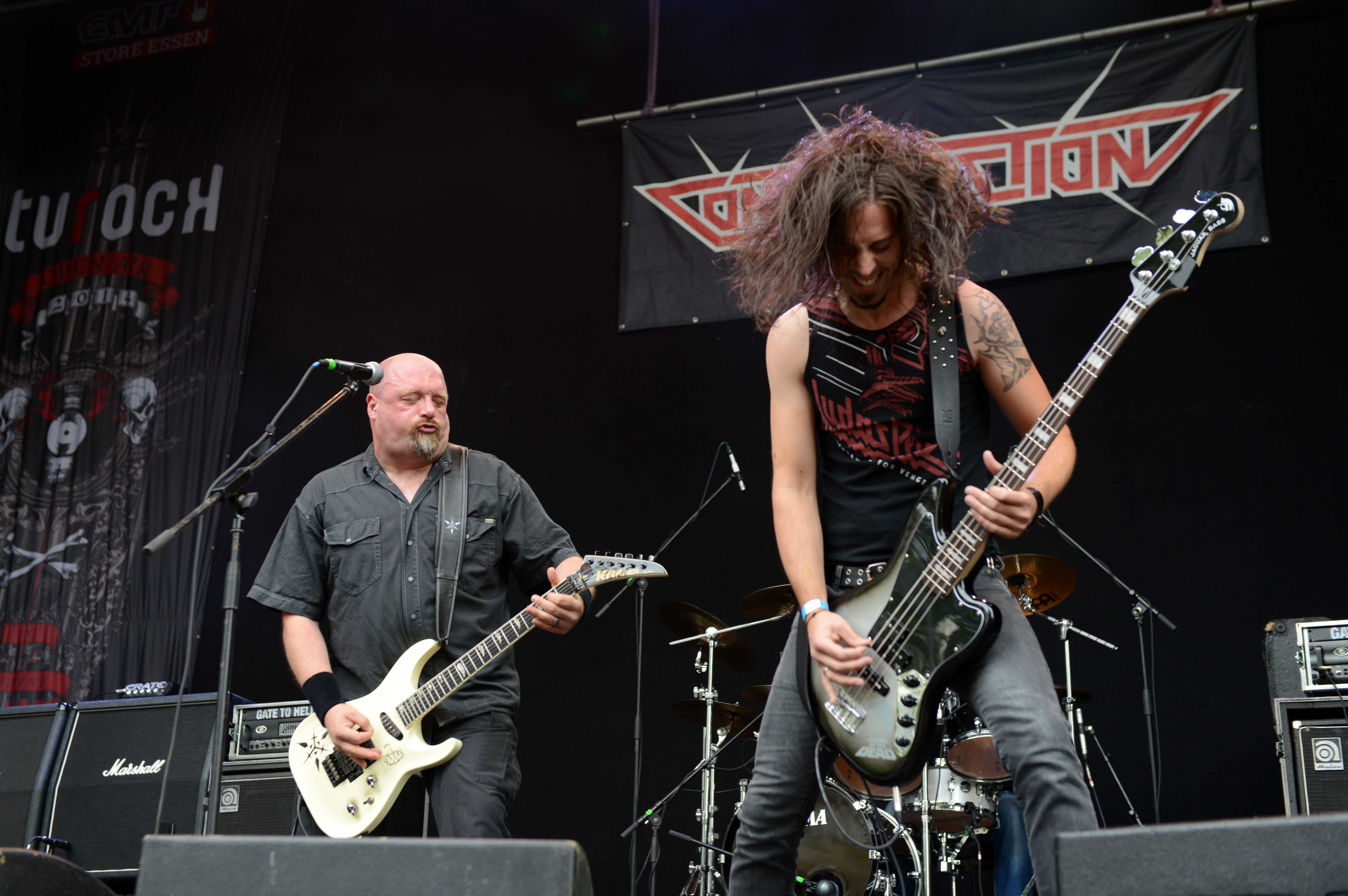 Contradiction at Turock Open Air 2014 in Essen, Germany